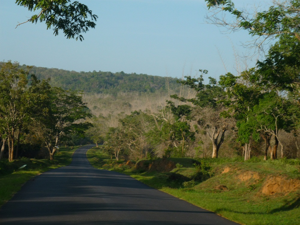 NH-67